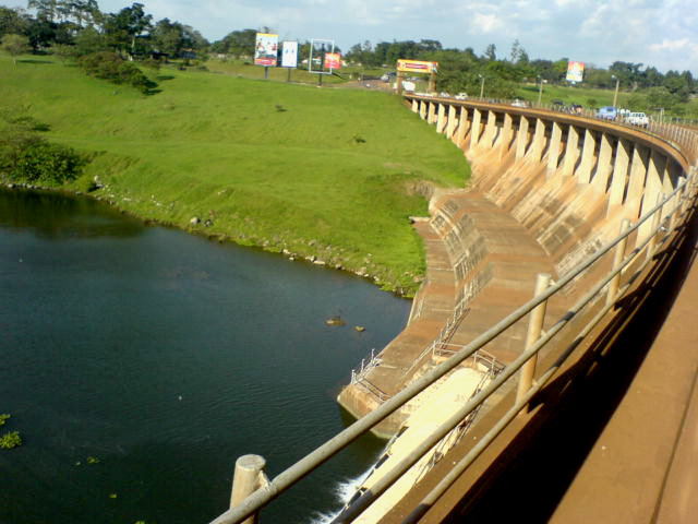 Nalubaale Power Station (formerly Owen Falls Dam) in Jinja, Uganda on the Victoria Nile